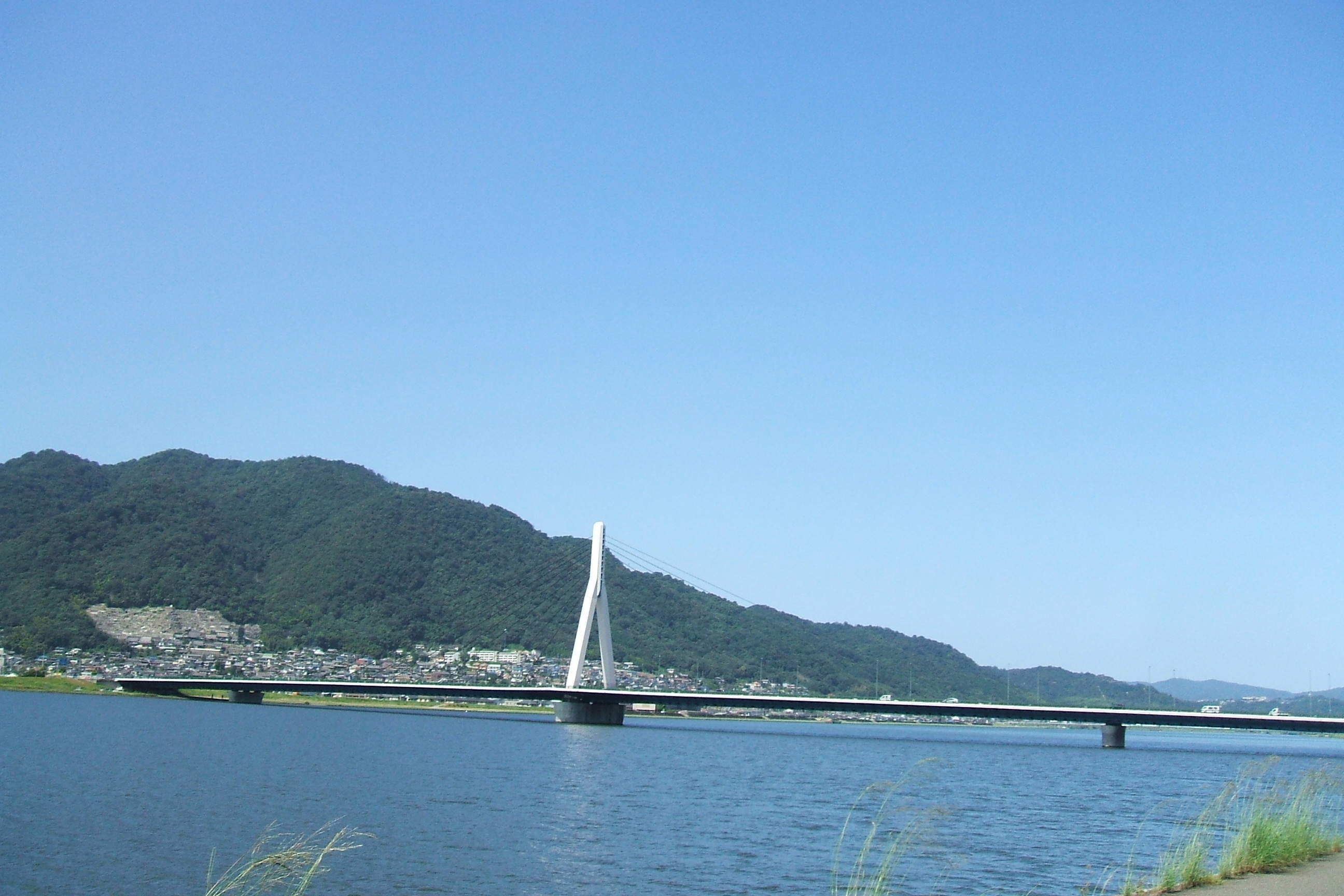 Ashidakawa Bridge